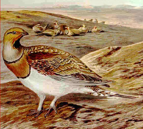 Pin-tailed Sandgrouse (Pterocles alchata)